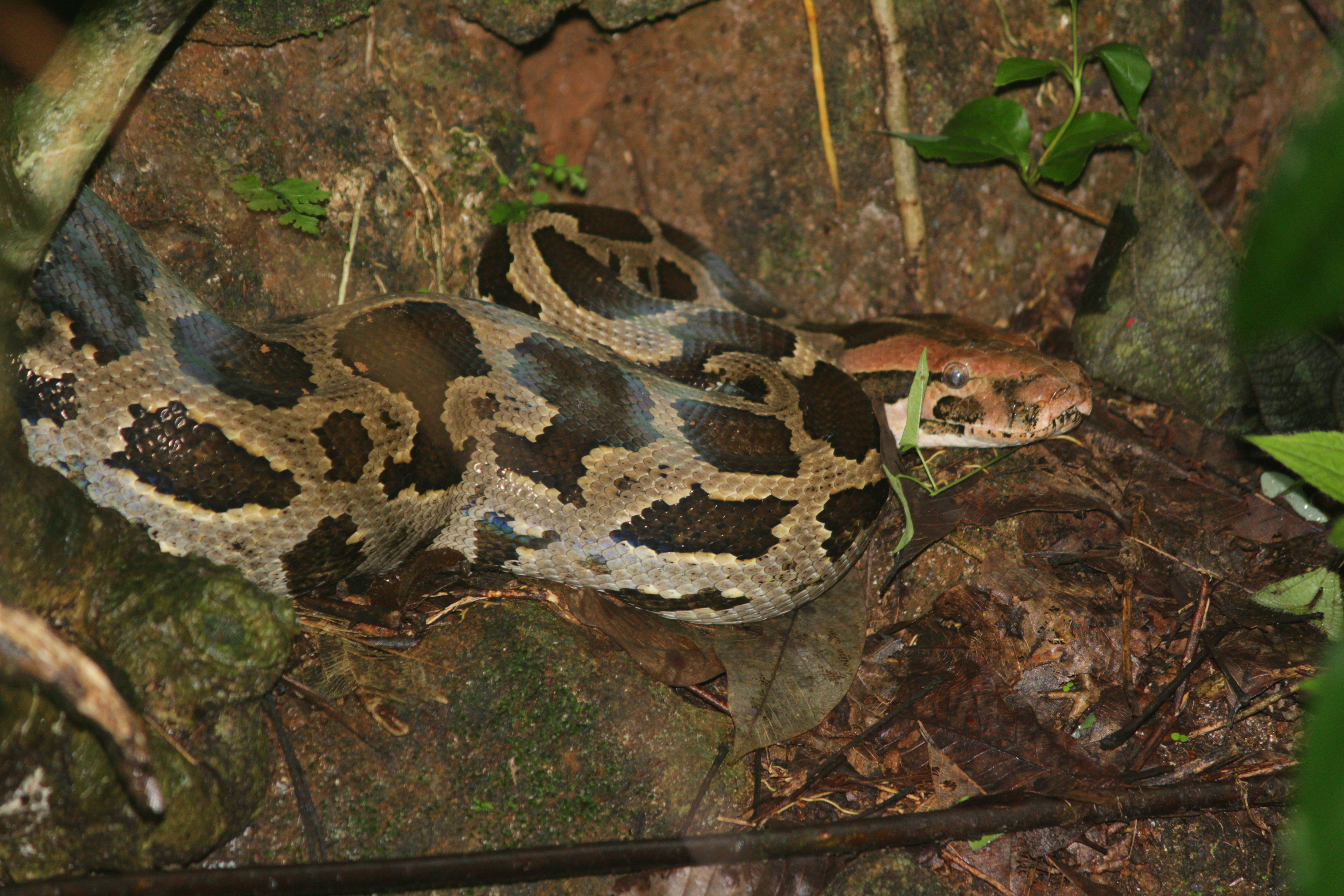 Indian python (Python molurus). Photo taken near Kanjirappally.